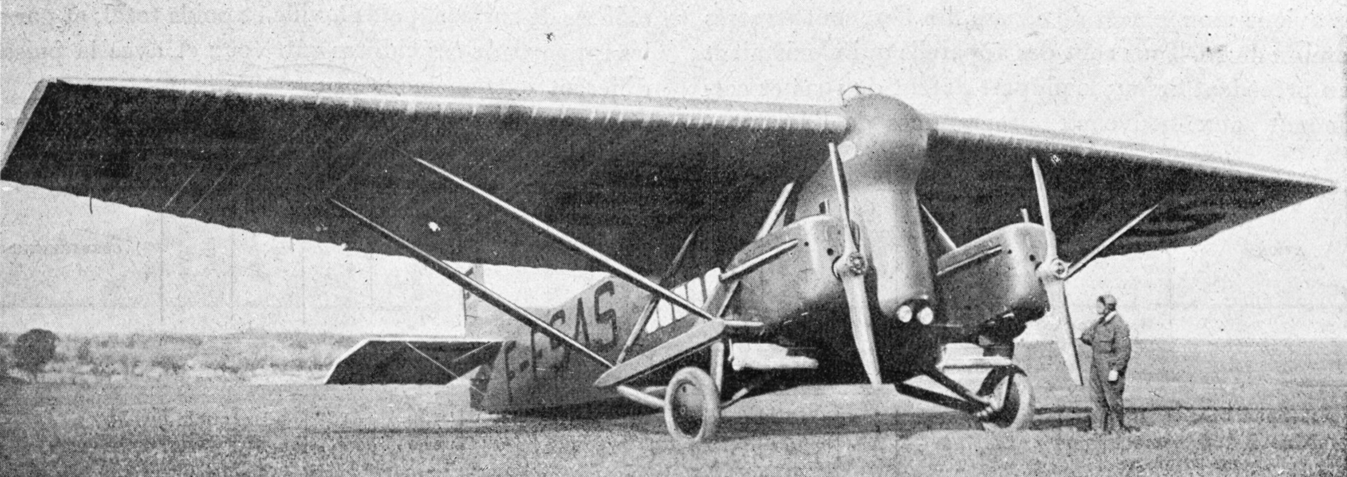 Farman F.3bis (F.122?) Jabiru prototype twin-engined airliner with French registration F-ESAS.